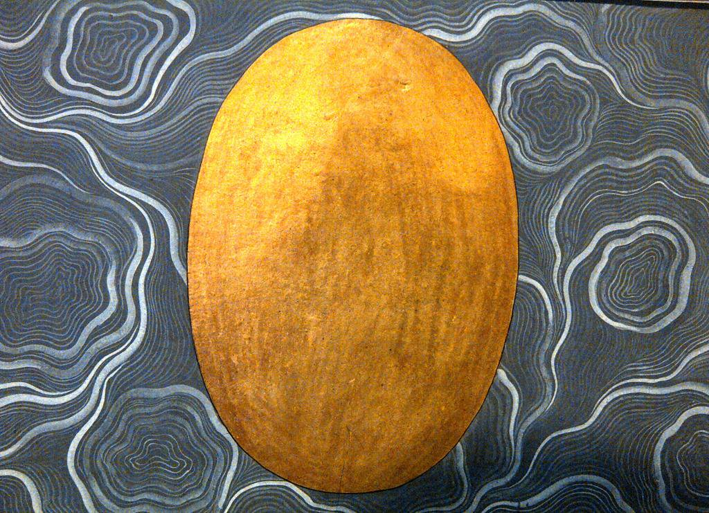 Work of manaku, pahari Artist